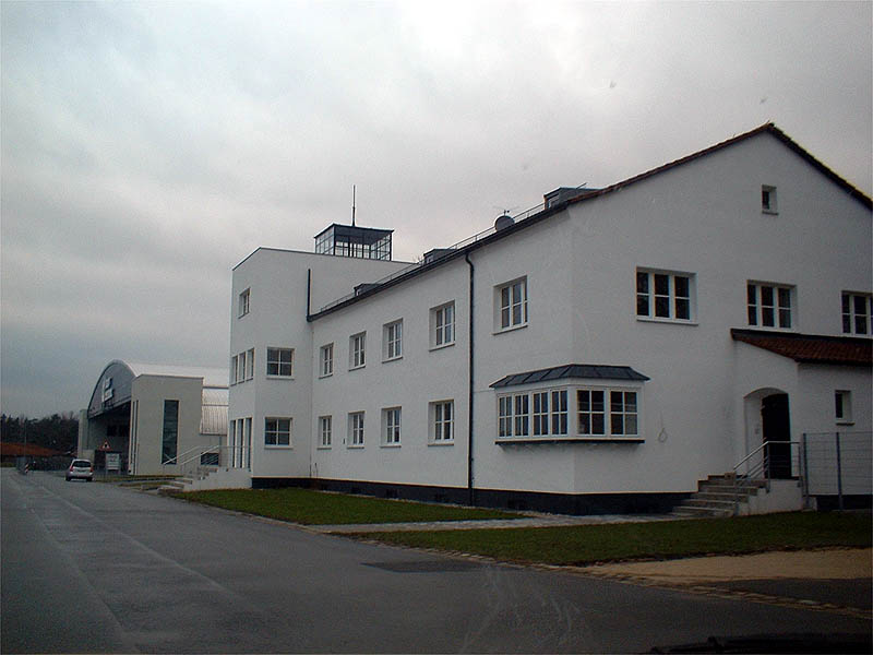 Fuerth-Atzenhof (Bavaria), abandoned airfield, former air-traffic control building, approx. 1934/35